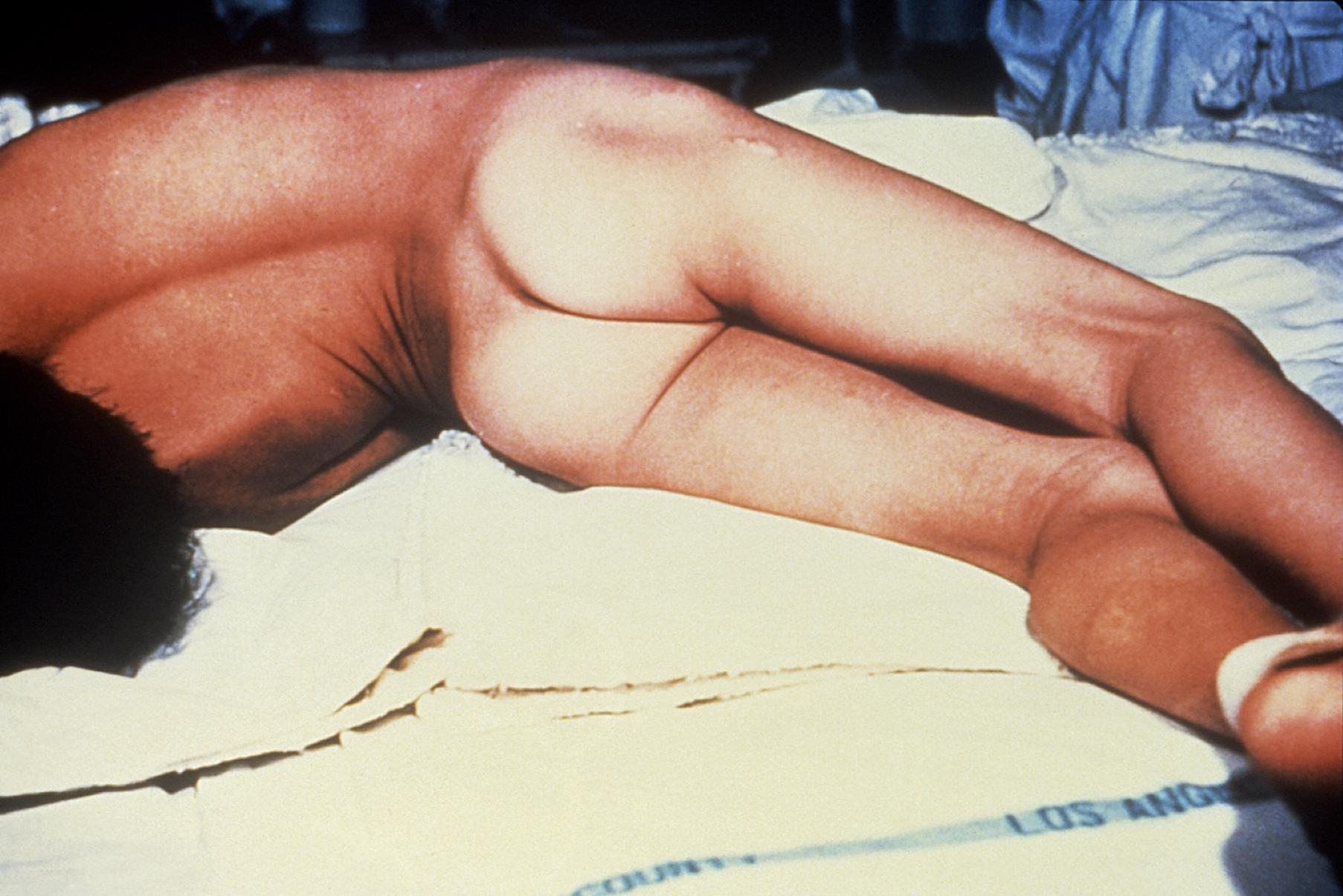 This patient is displaying a bodily posture known as "opisthotonos" due to Clostridium tetani exotoxin. Generalized tetanus, the most common type (about 80%) usually presents with a descending pattern, starting with trismus or lockjaw, followed by stiffness of the neck, difficulty in swallowing, and rigidity of abdominal muscles.